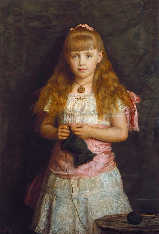 Princess Marie of Edinburgh, later Queen of Romania